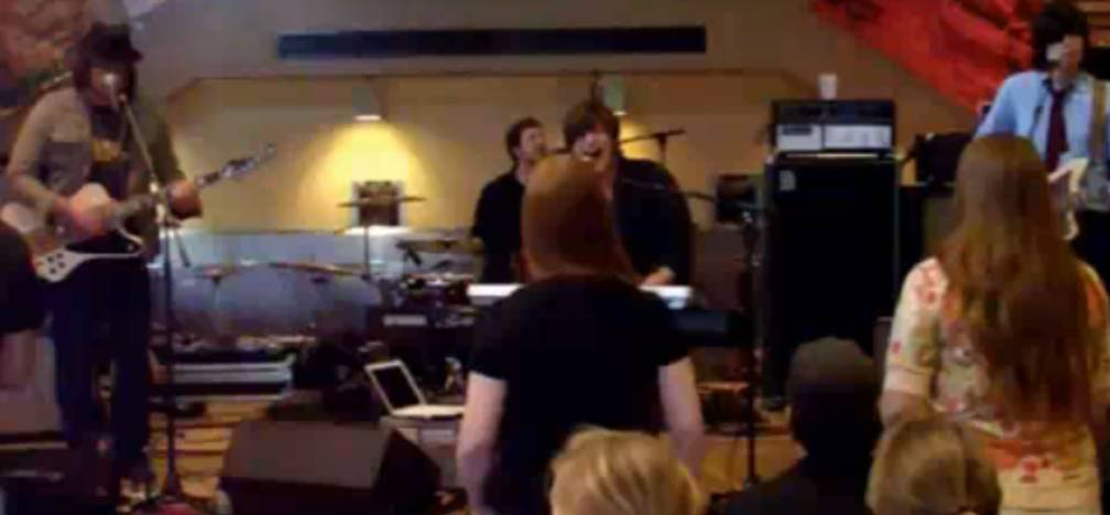 A picture from a video I took of Seabird in concert